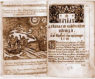 Russian school book of Teodor Janković-Mirijevski (1741-1814), Austrian and later Russian educational reformer of serbian origin